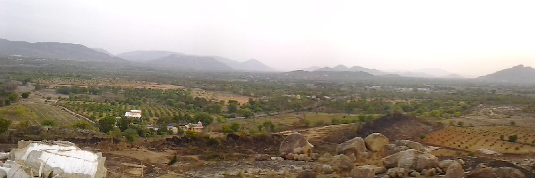 View from seetamma gutta